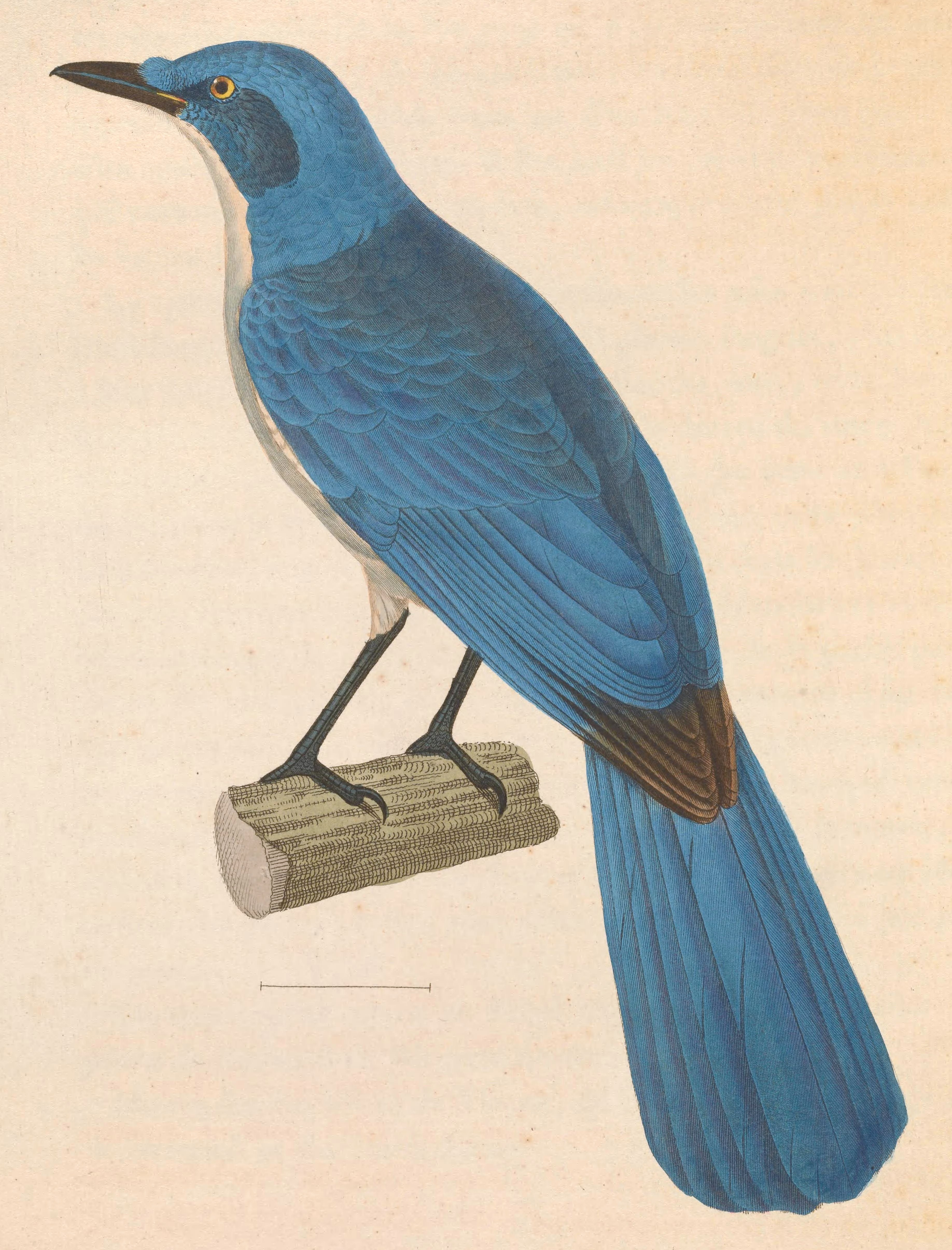 « Garrulus ultramarinus » = Aphelocoma coerulescens (Florida Scrub Jay) - adult